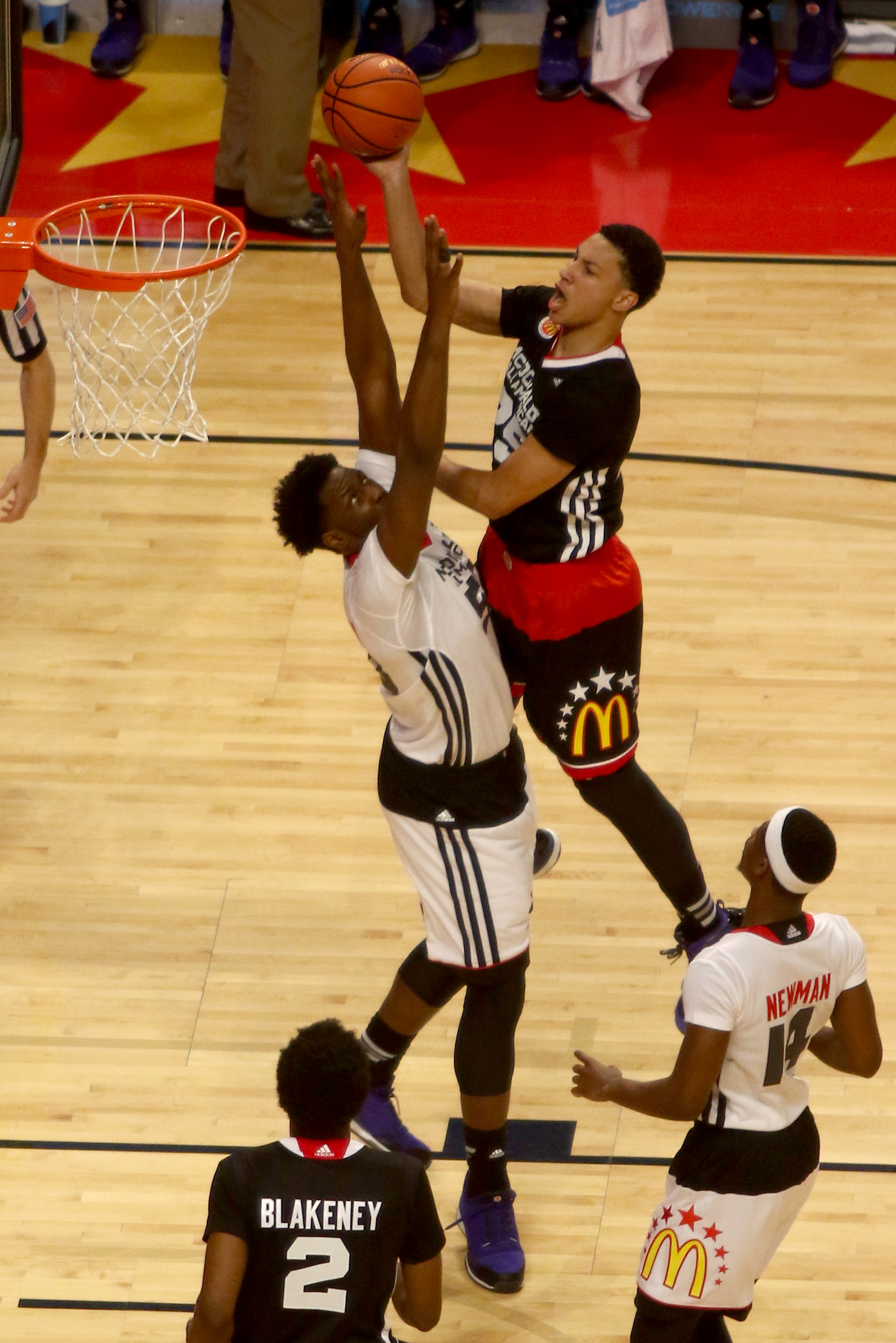 Ben Simmons attacks Caleb Swanigan in the 2015 McDonald's All-American Boys Game